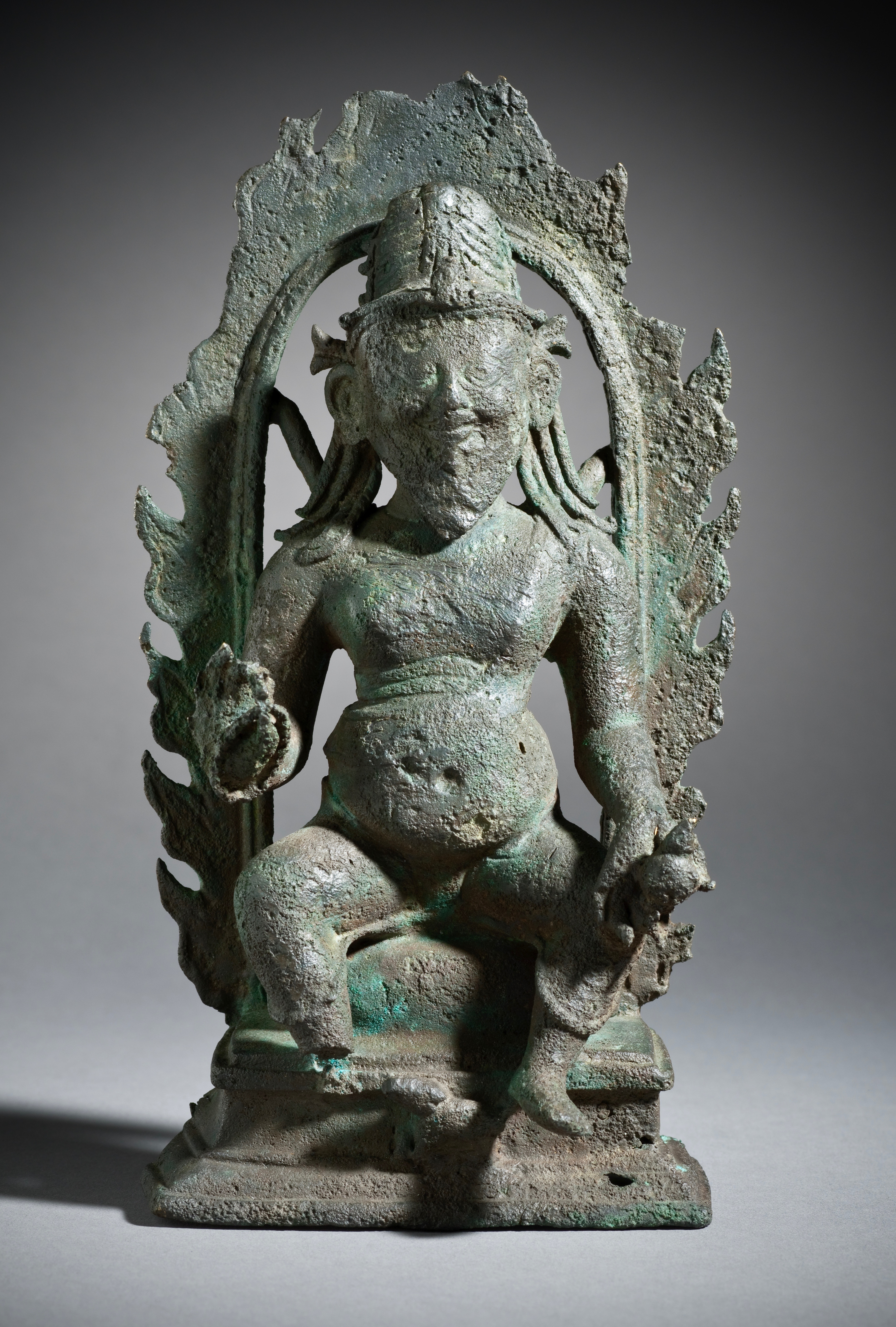 India, West Bengal or Bangladesh, 9th century Sculpture Copper alloy 8 1/4 x 4 1/2 x 3 in. (20.95 x 11.43 x 7.62 cm) Gift of Mr. and Mrs. Lawrence R. Phillips (M.81.275) South and Southeast Asian Art